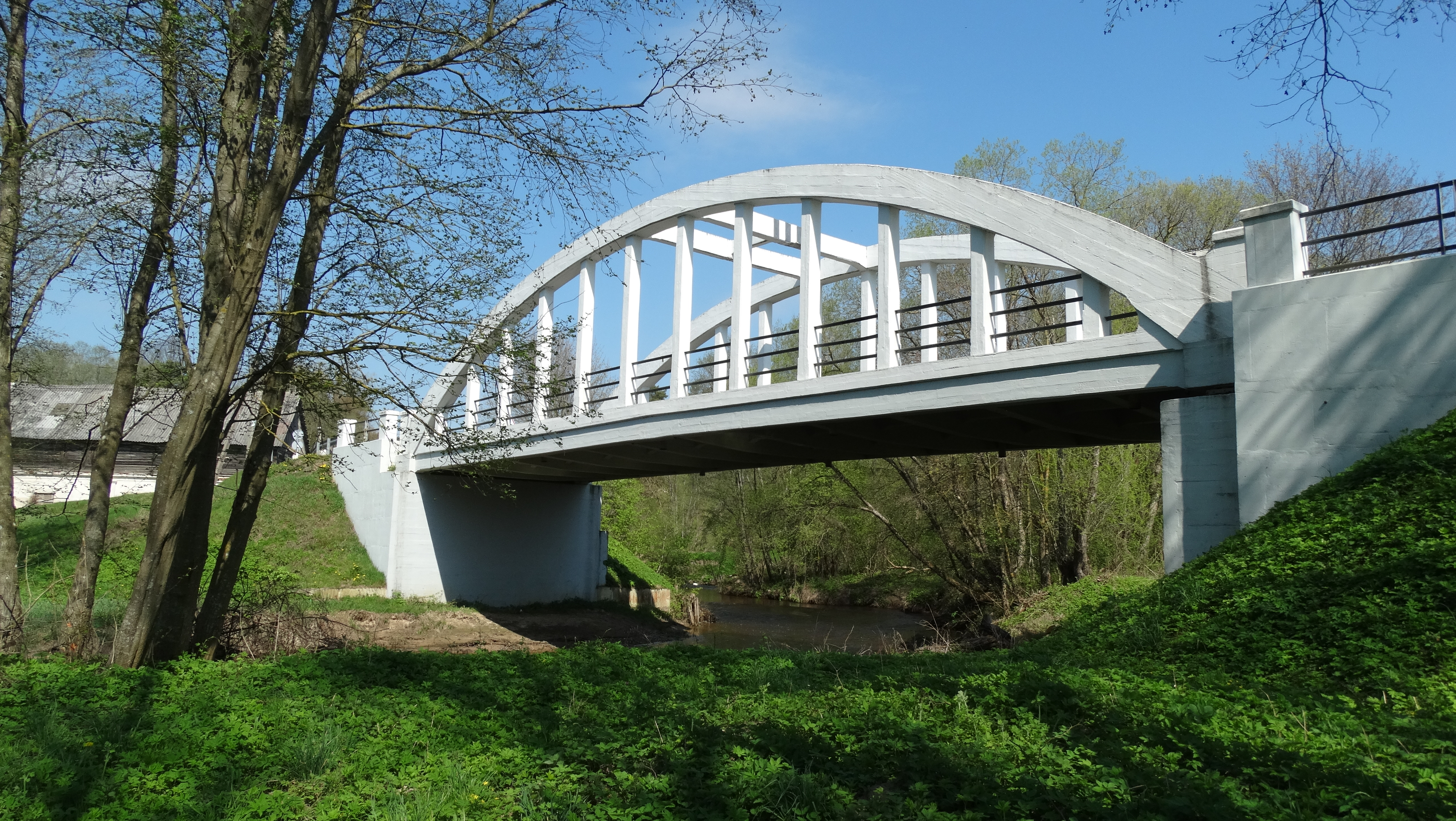 Bridge on Musė river, Čiobiškis, Širvintos District, Lithuania